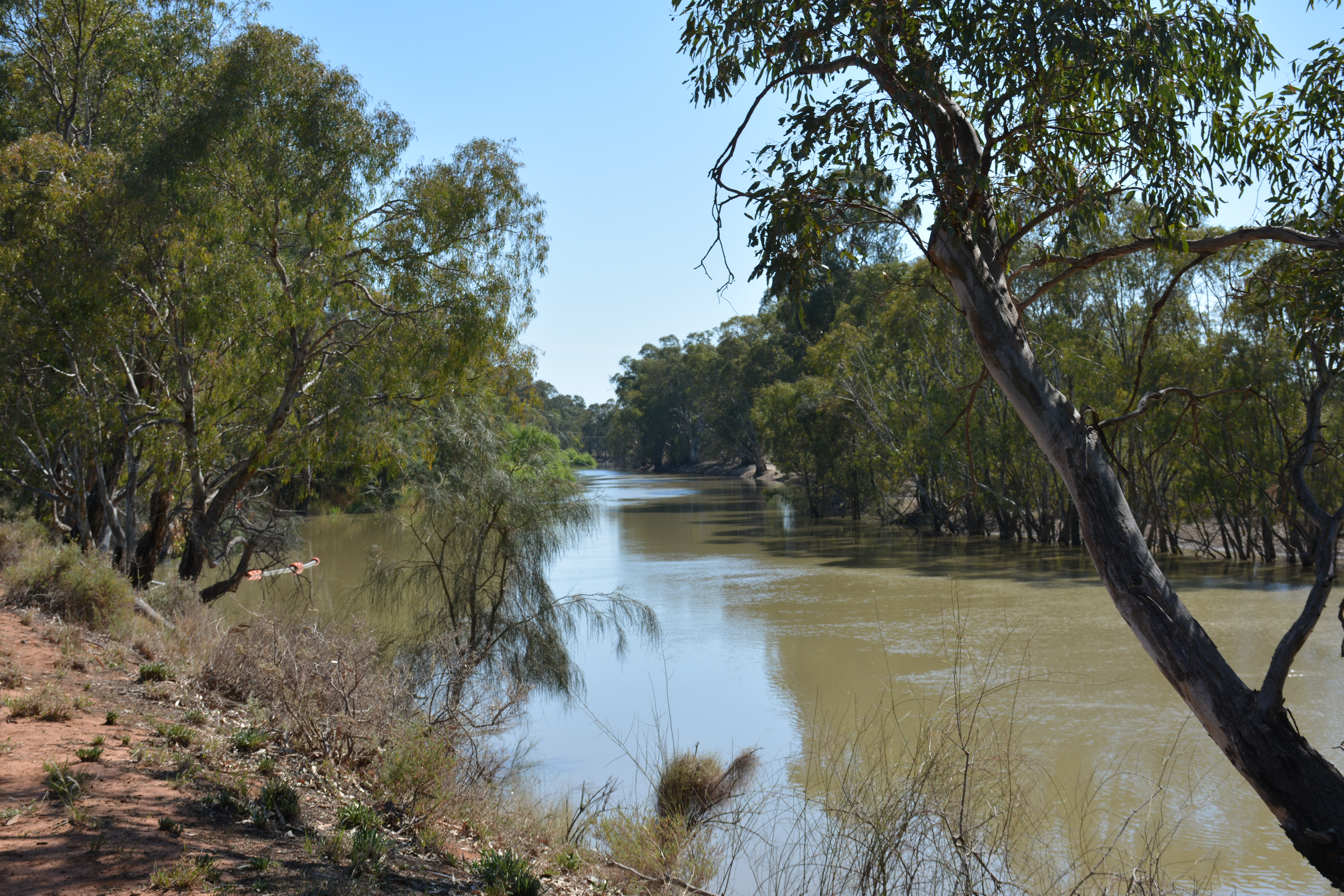 The Marraboor River, or Little Murray River, at Swan Hill, Victoria, Australia. An anabranch of the Murray River. Photo from taken from the Swan Hill River Walking Track.